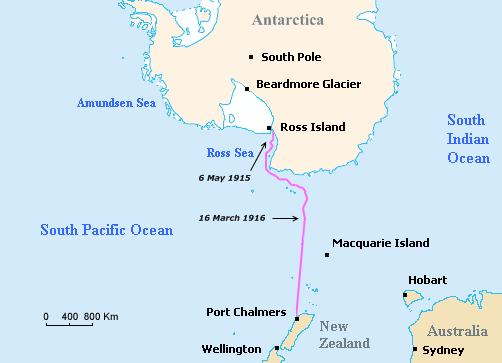 Map of the drift of Aurora, one of the ships of the British Imperial Trans-Antarctic Expedition led by Ernest Shackleton in 1914–15. The lower arrow indicates the spot where Aurora broke free of the pack ice in 1916.